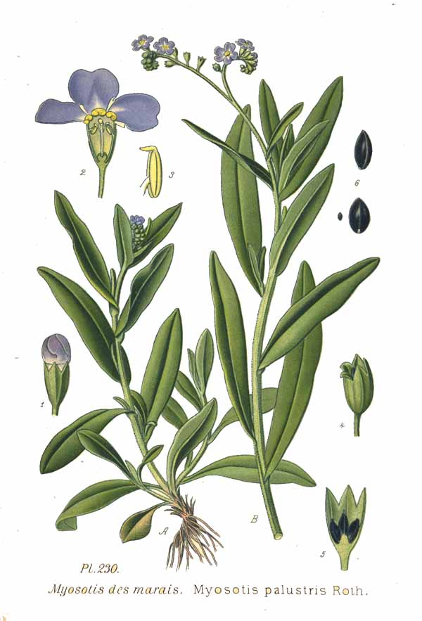 Myosotis scorpioides [syn. Myosotis palustris Roth.]